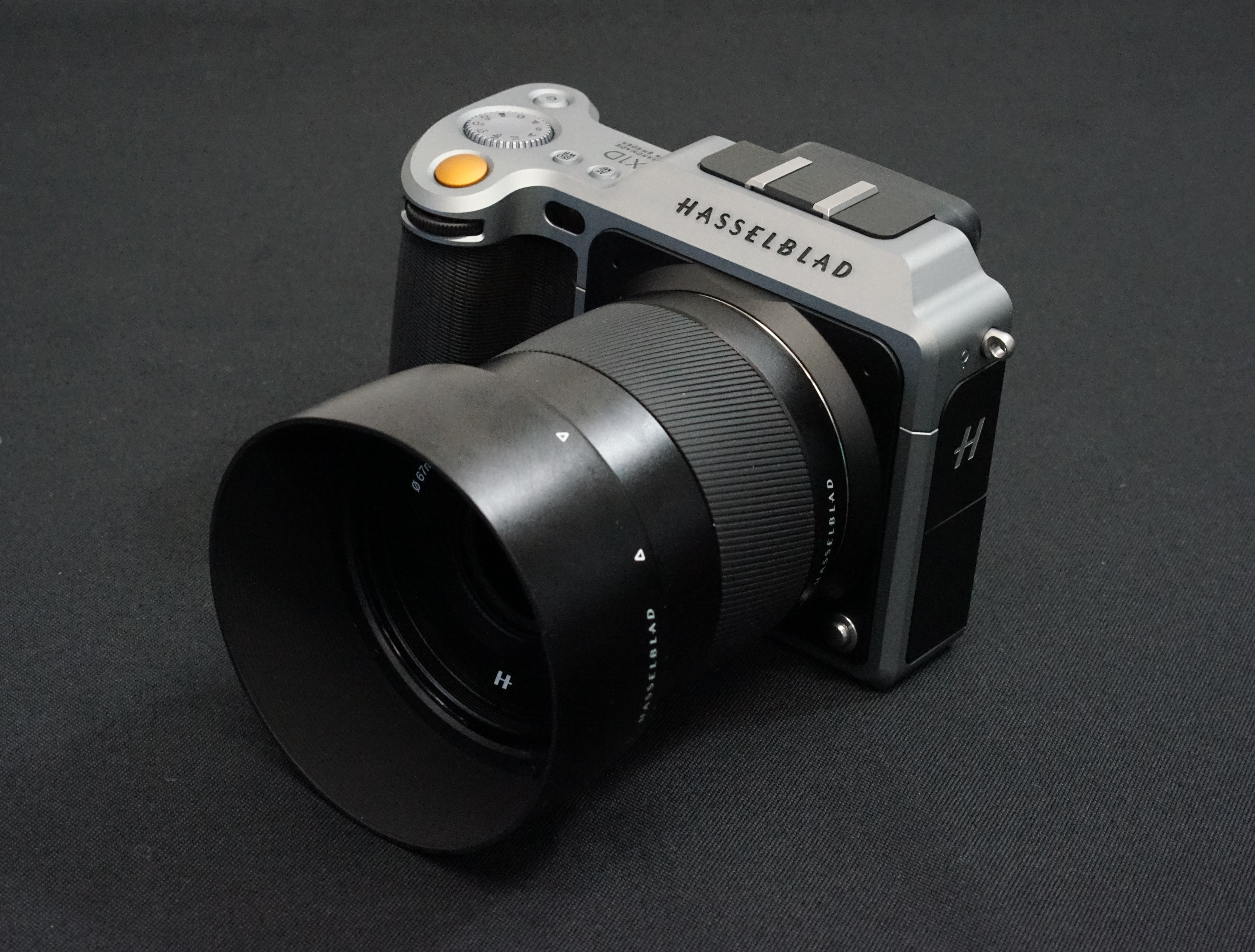 A preproduction Hasselblad X1D medium format interchangeable lens camera, seen during the Hasselblad X1D Americas Preview Tour. Hasselblad staff on site has permitted photographs taken of the X1D, but did not allow us to leave with photographs taken with the X1D.